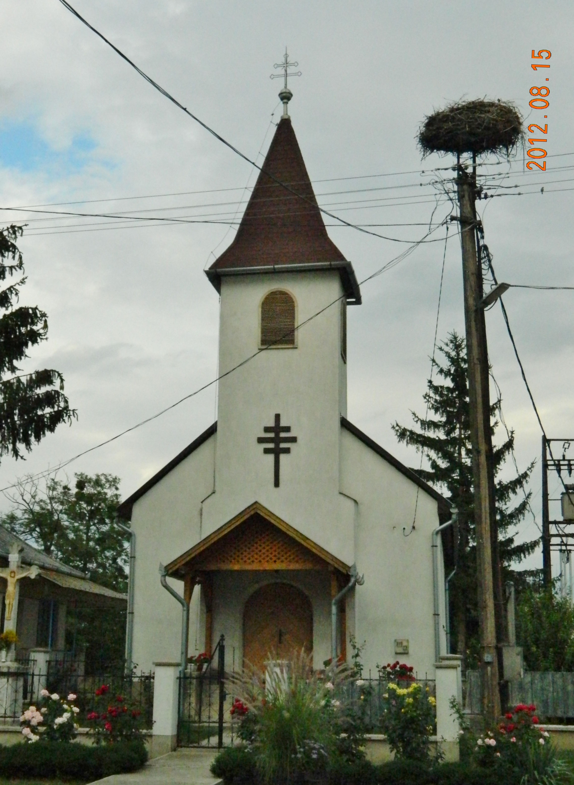 Eastern catholic church in Felsoberecki